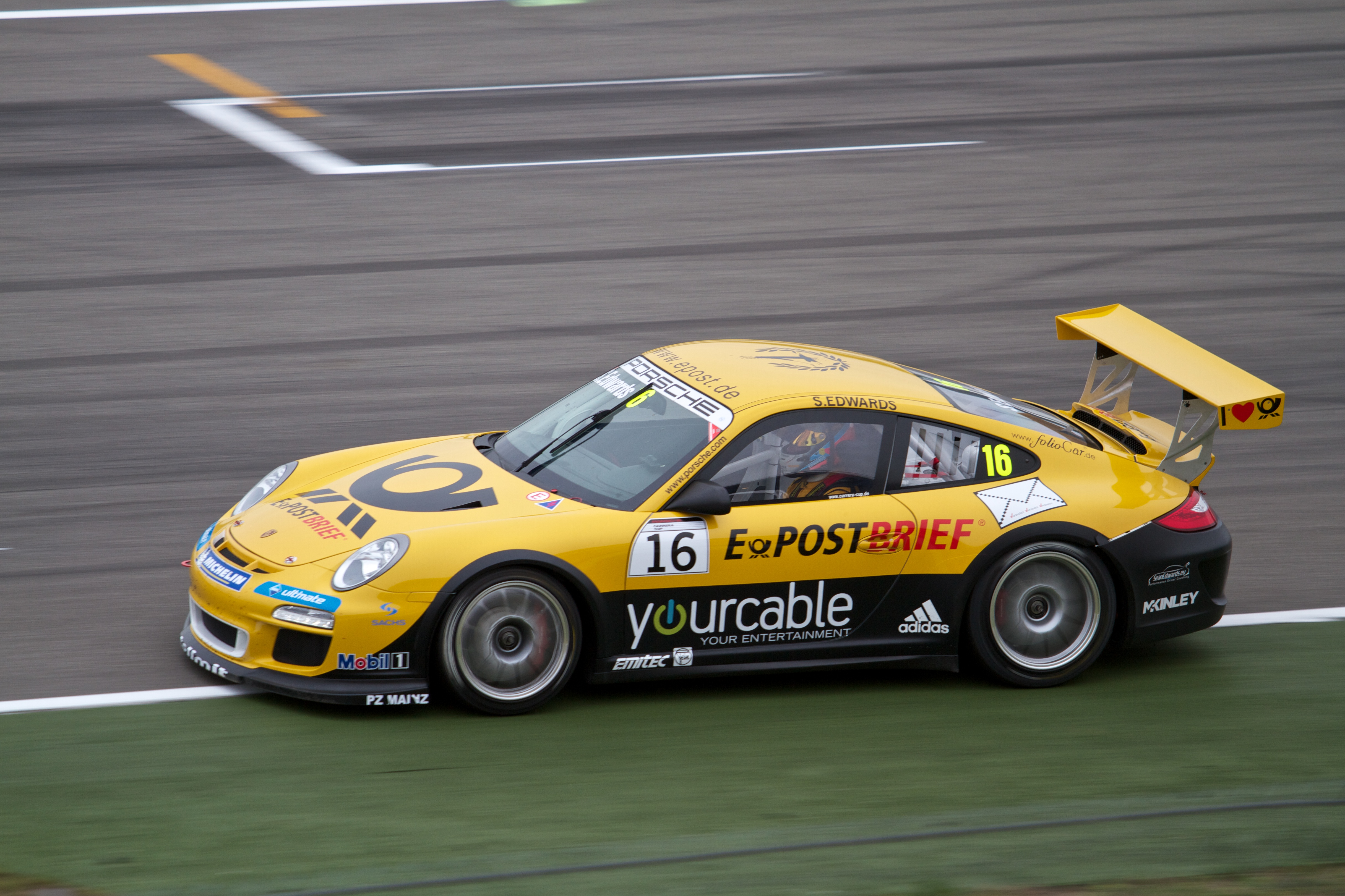 Sean Edwards driving the Deutsche Post-colored Porsche 997 GT3 Cup of Tolimit Motorsport during a race of the Porsche Carrera Cup Germany at the Hockenheimring Baden-Württemberg.